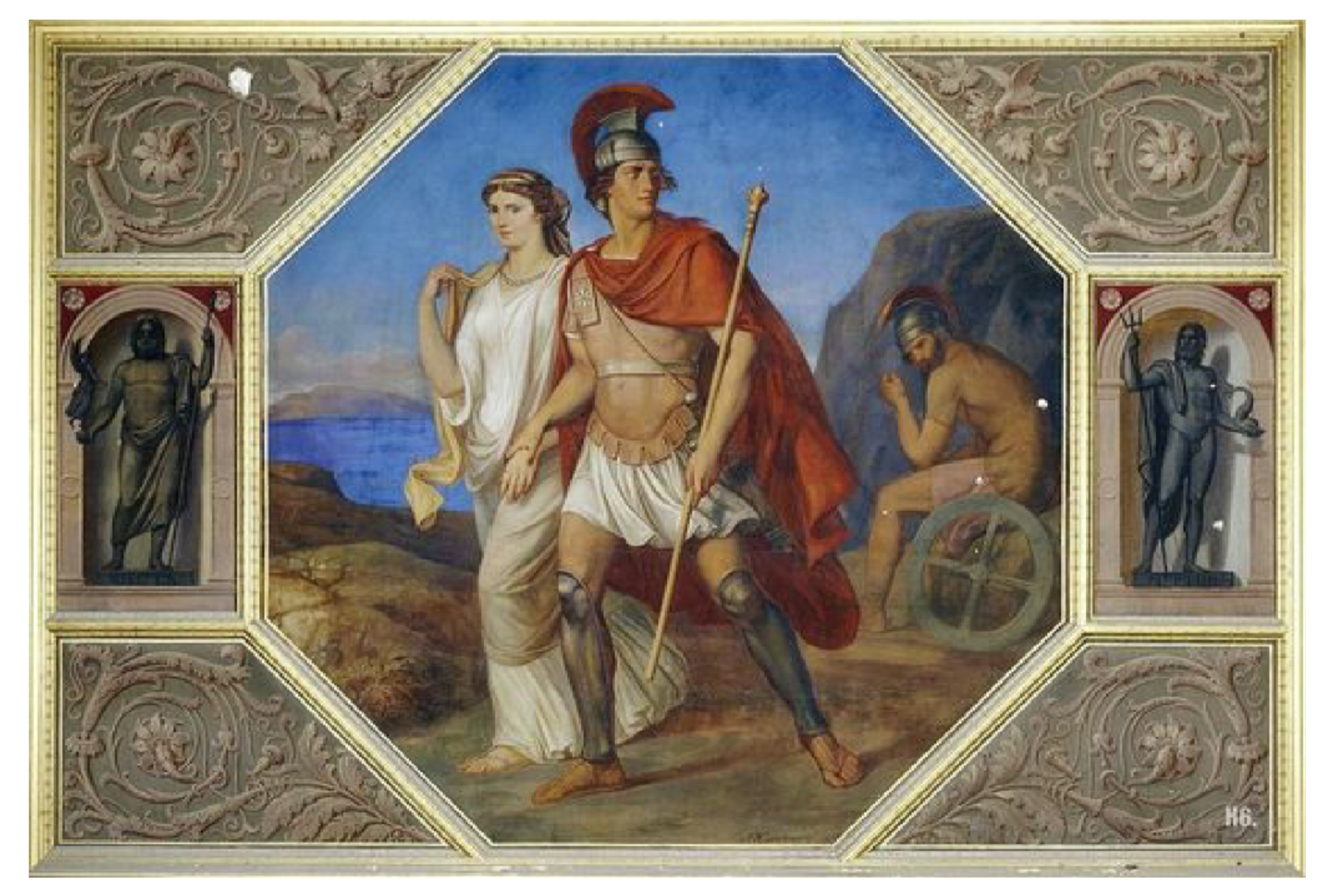 August Theodor Kaselowsky, Neues Museum